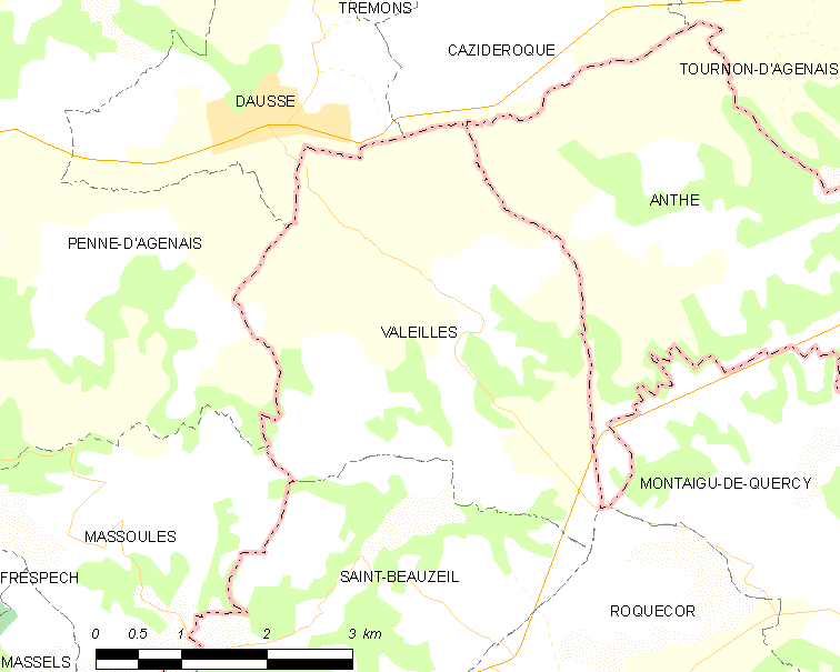 Map of French municipality Valeilles